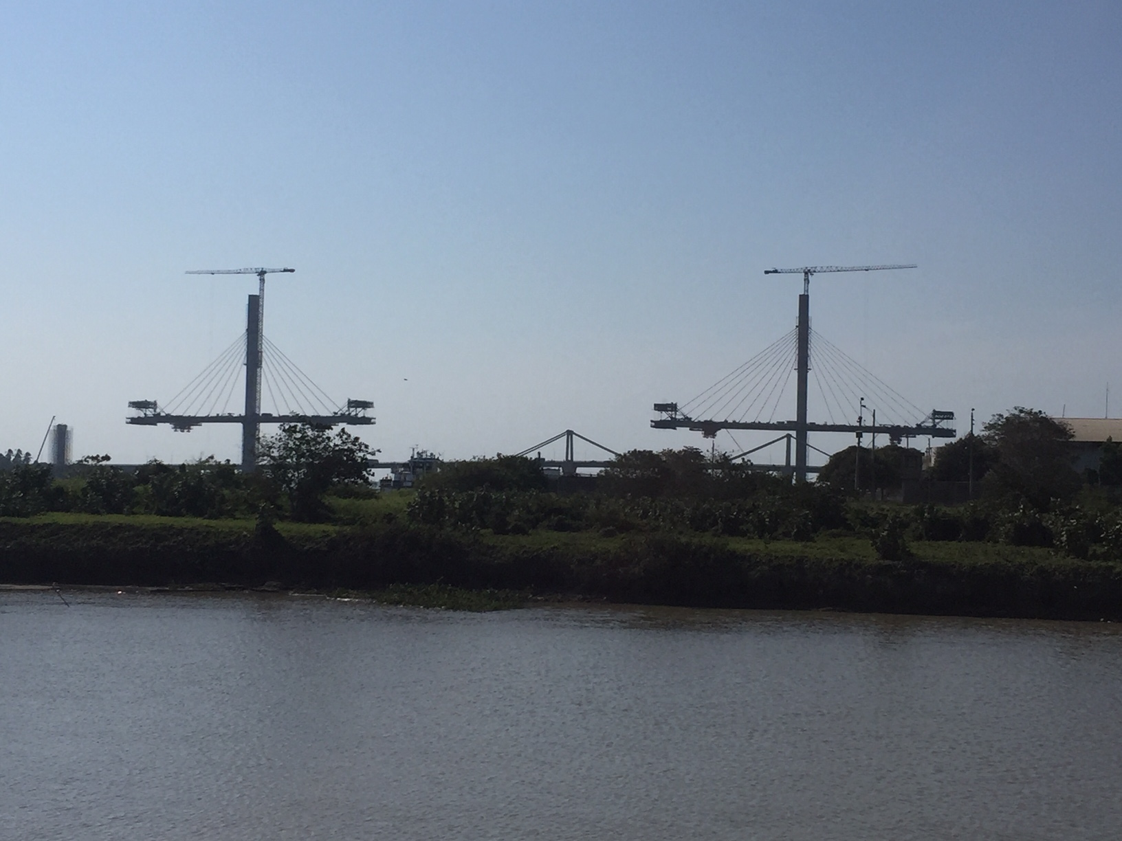 Rascacielos de Barranquilla, Colombia